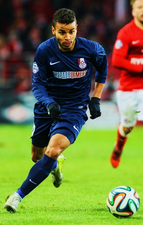 Danilo Sousa Campos